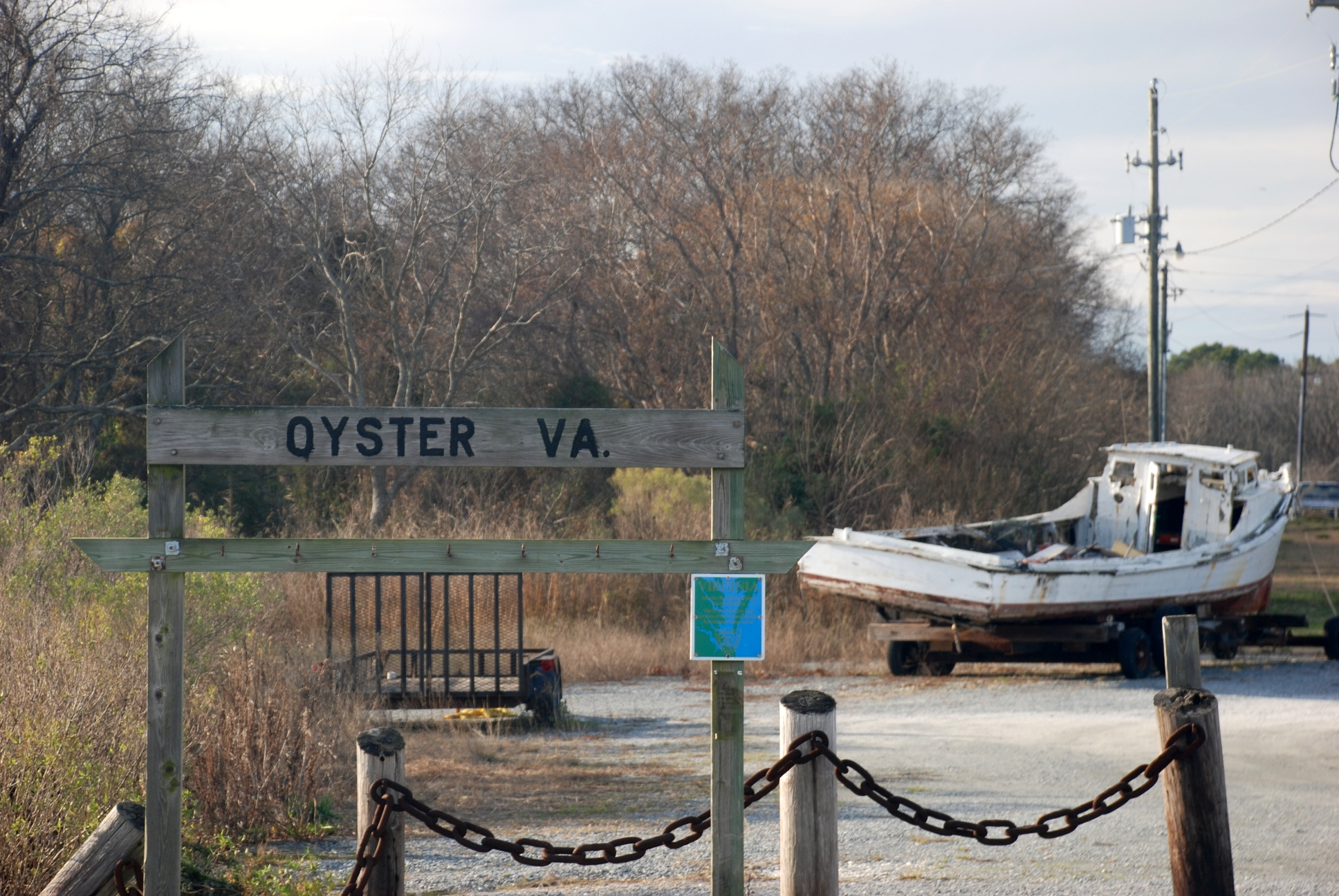 Picture of the Oyster dock sign